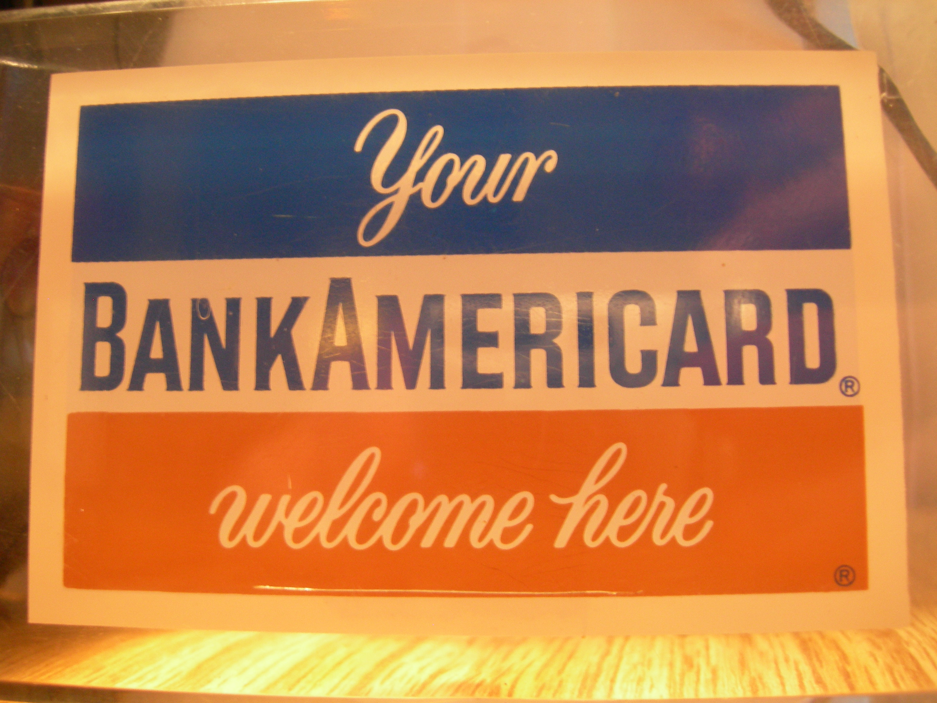 BankAmericard acceptance sign. Photo taken by me